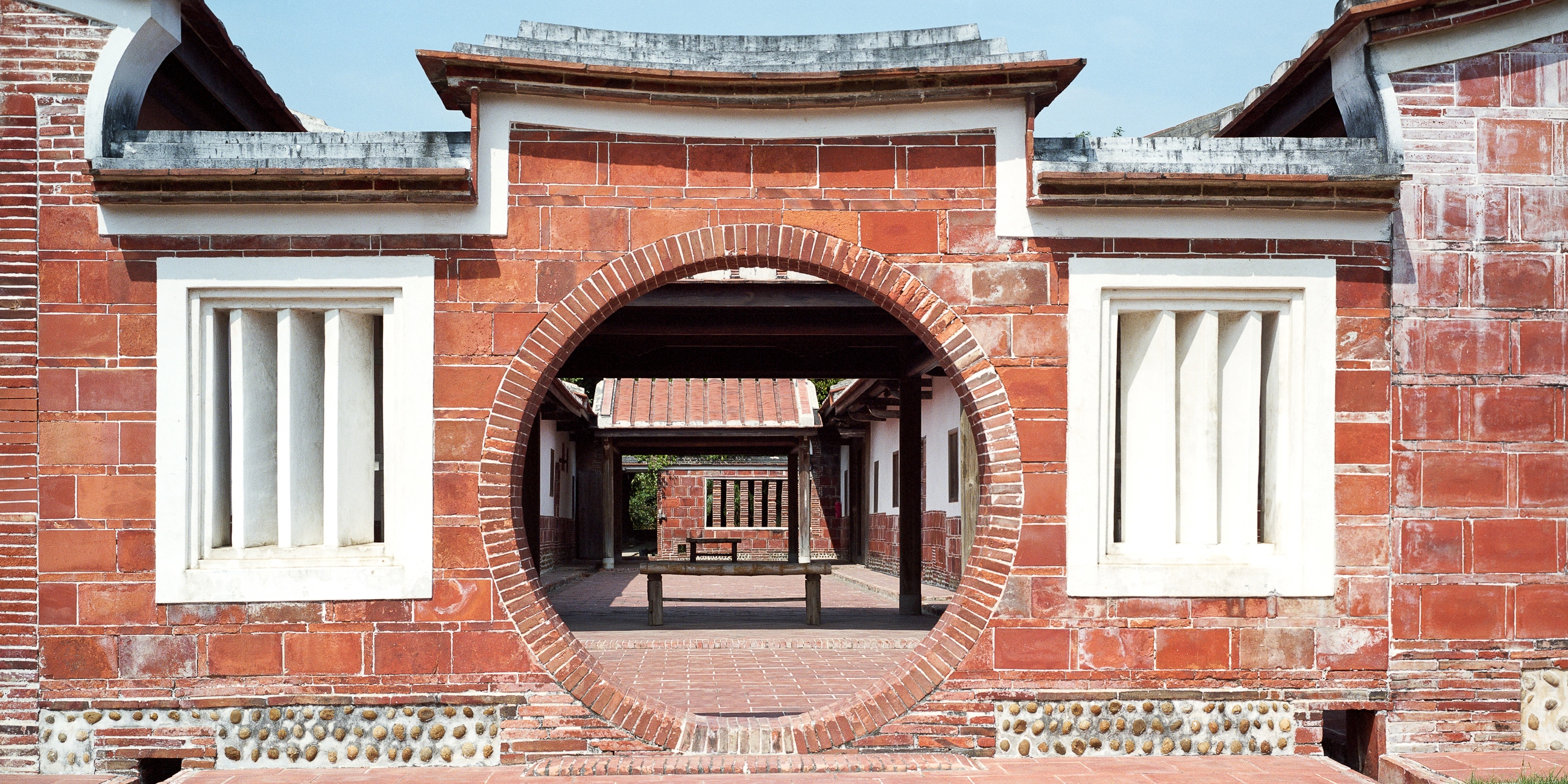 Shot on 2010/11/2